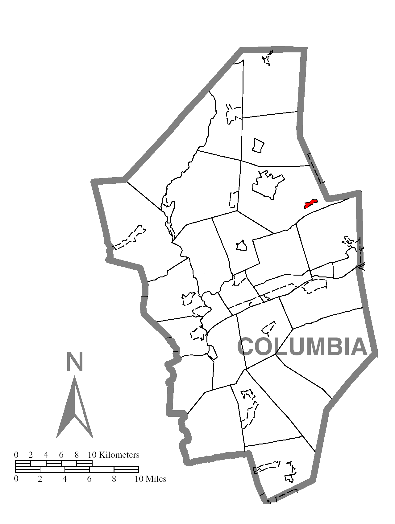 A map of Columbia County showing Jonestown, Pennsylvania (alternate) highlighted on the map.